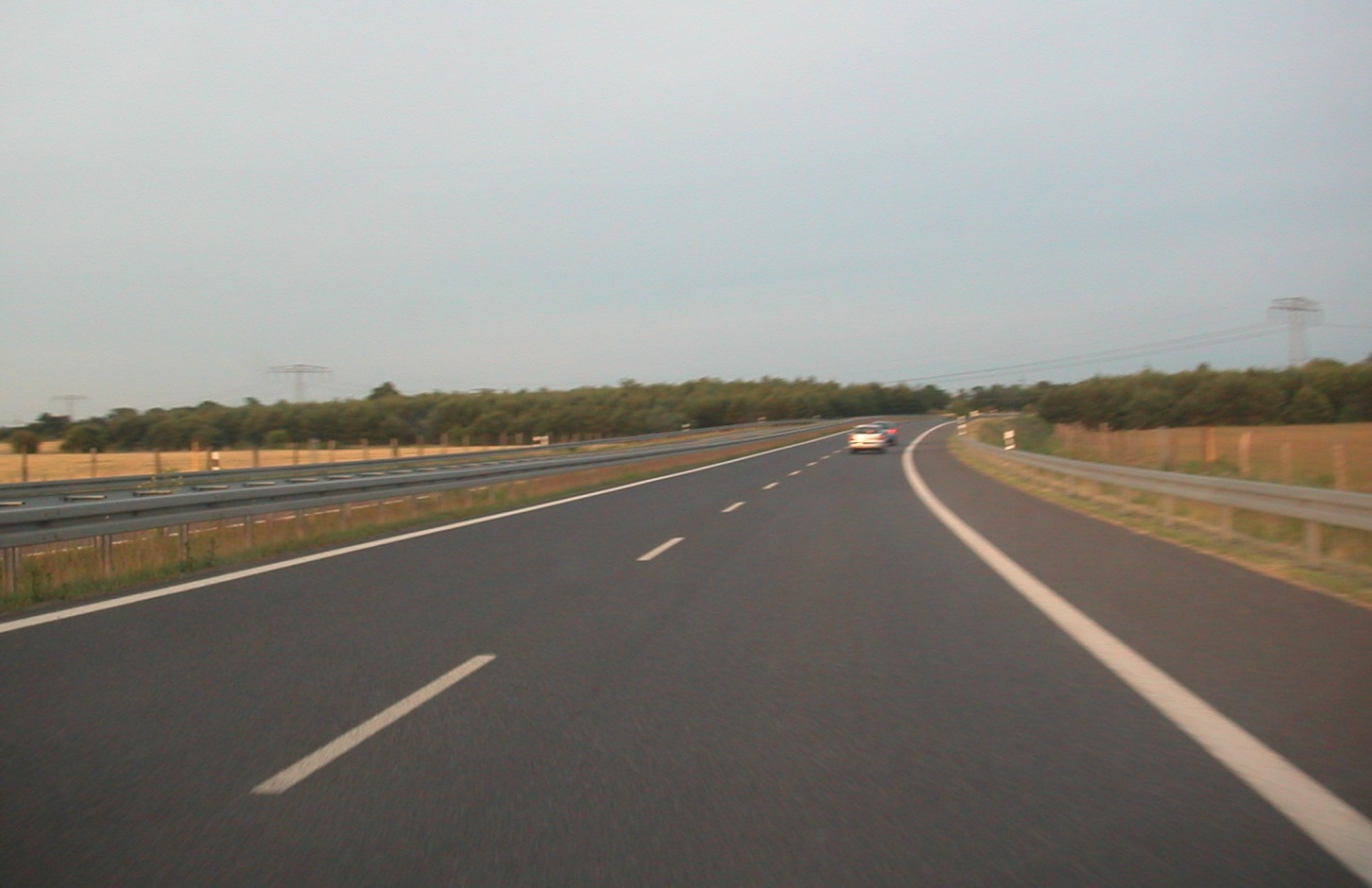 Expressway Potsdam-Schönefeld near Mahlow